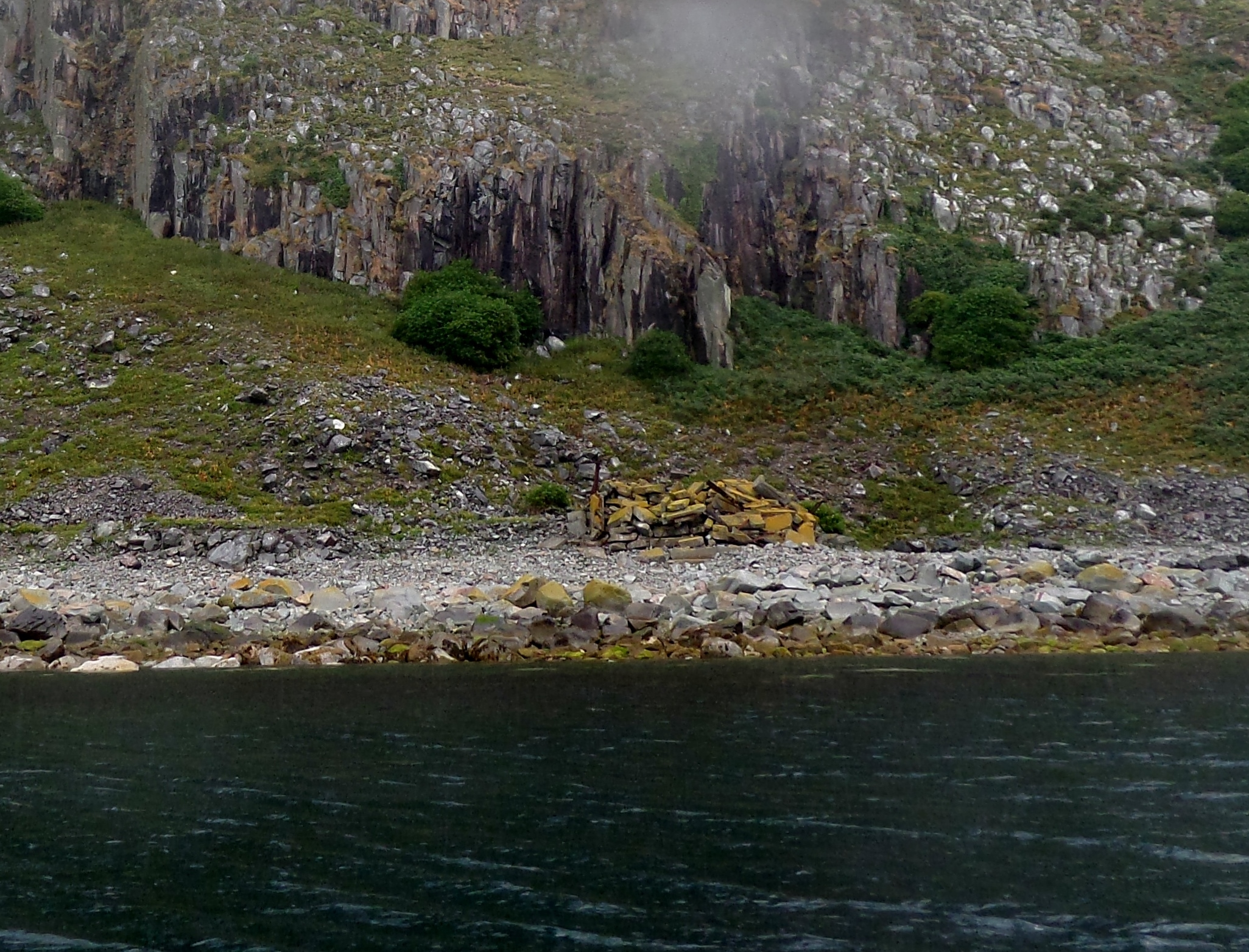 Remnants of what may be the old Ailsa Granite Co. stone crusher near the South Foghorn, the Trammins, Ailsa Craig.